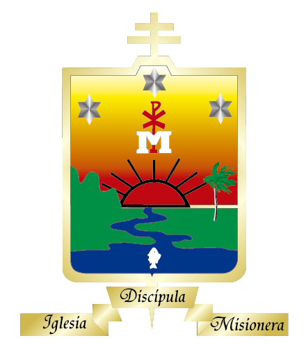 Escudo en png